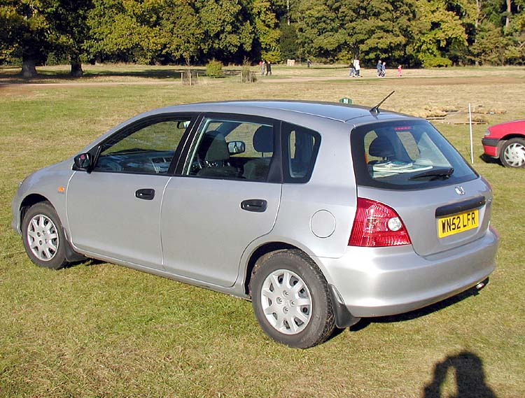 2002 Honda Civic. Taken by Adrian Pingstone in October 2003 in the UK and released to the public domain.